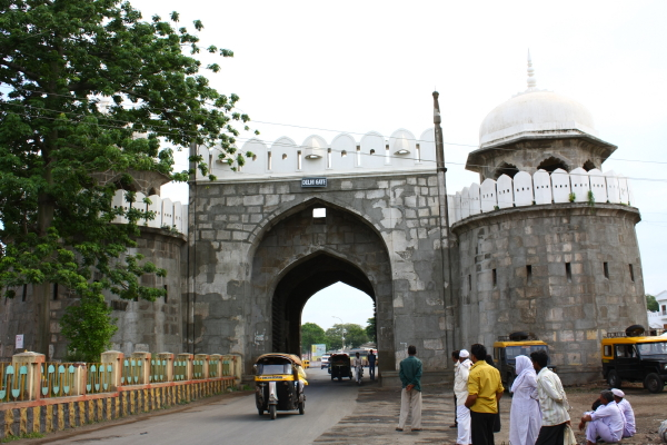 delhii gate